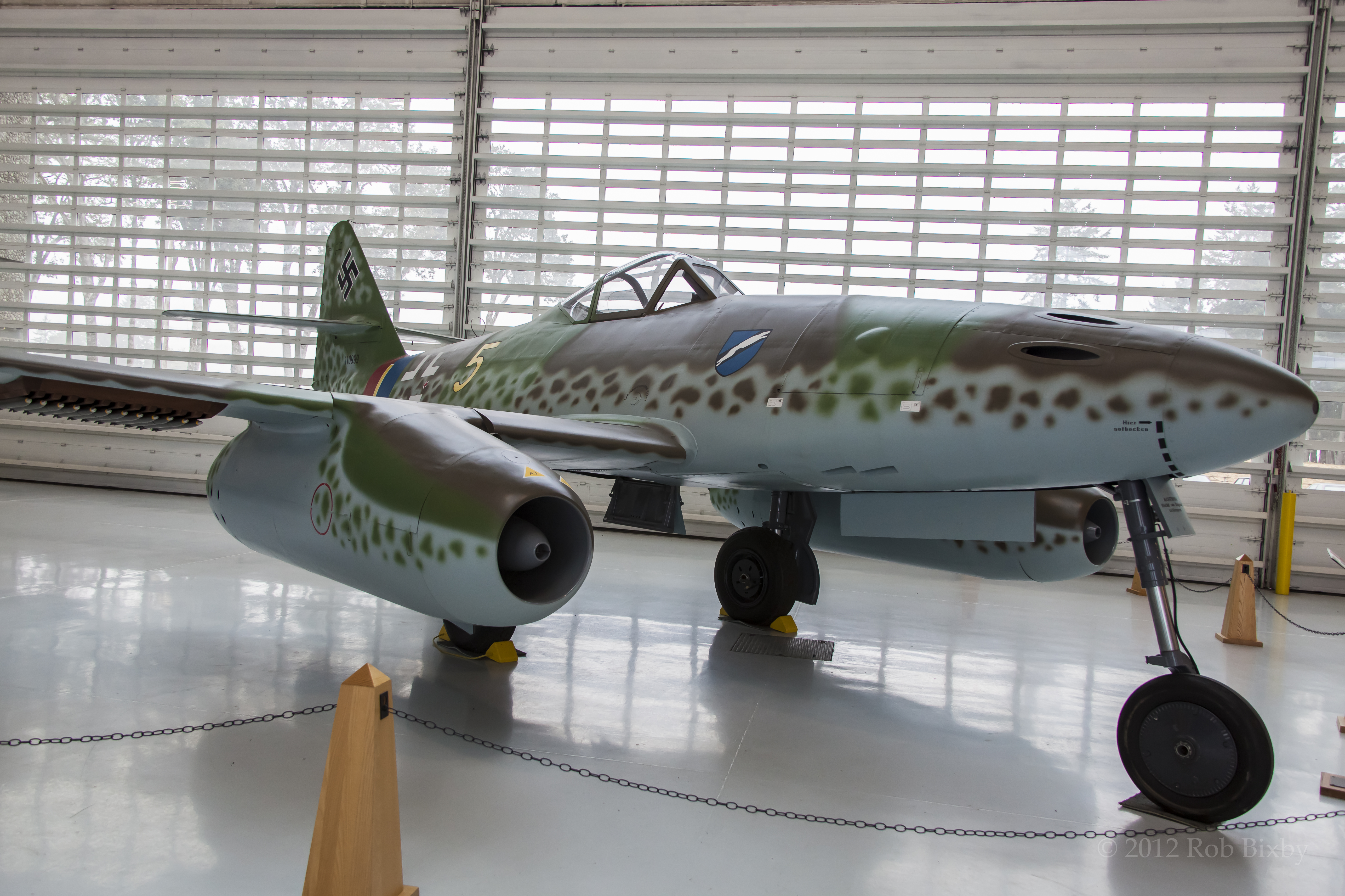 Wa-OR_Vac_10-12-1177